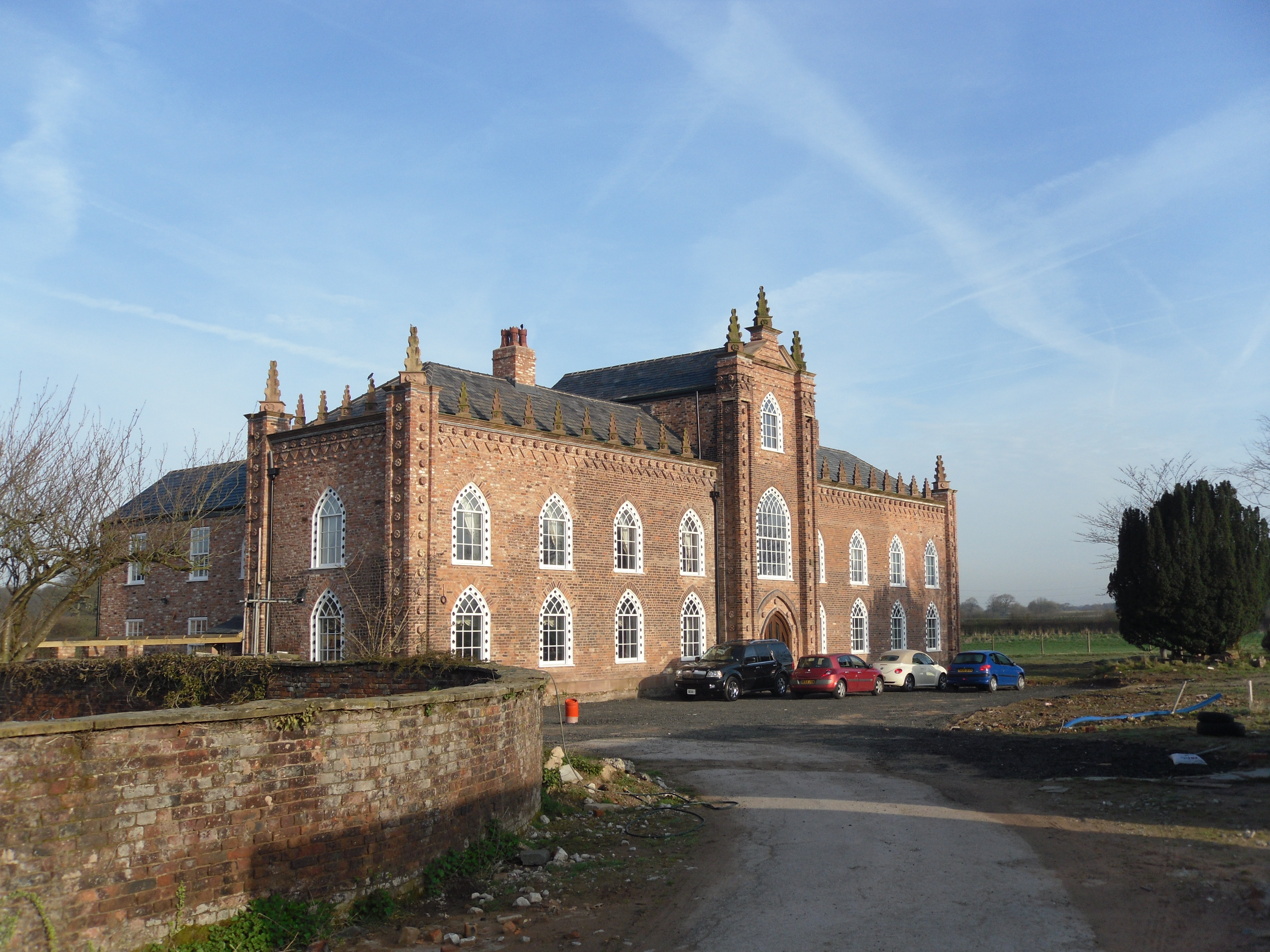 Over Tabley Hall This old Manor House has now been turned into Flats